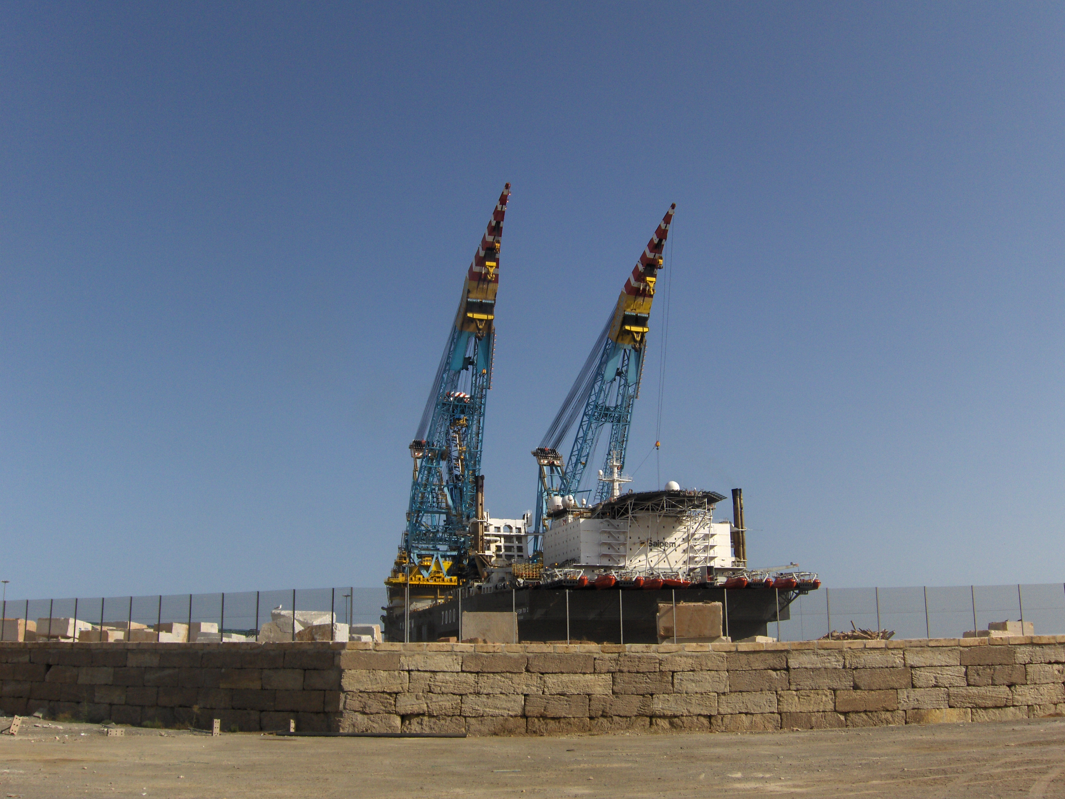 Side view of Saipem 7000 crane